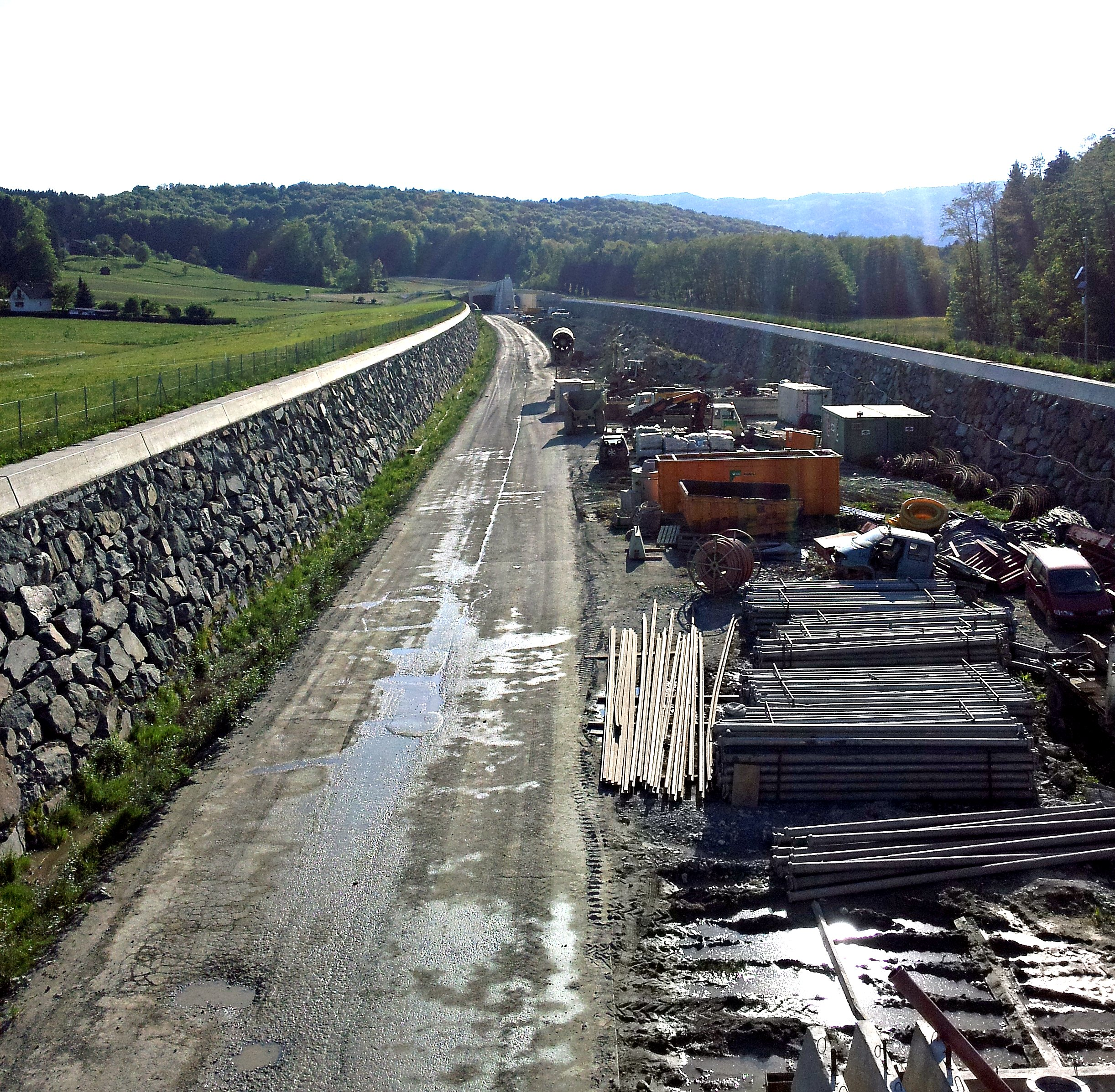 View at the eastern portal of the Koralmtunnel in Frauental an der Laßnitz, Styria.